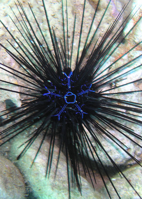 Diadem urchin (Diadema savignyi), Anilao, Batangas, Philippines